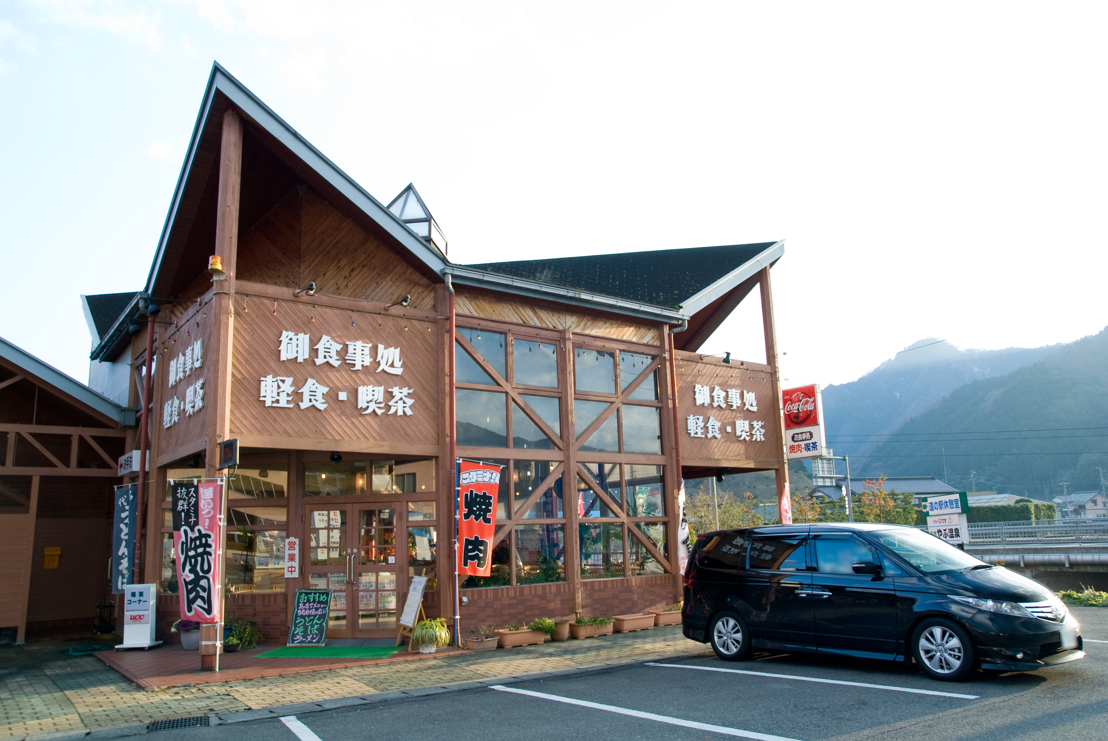 Café at Michinoeki Tajimarakuza in Yabu City, Hyogo Prefecture, Japan